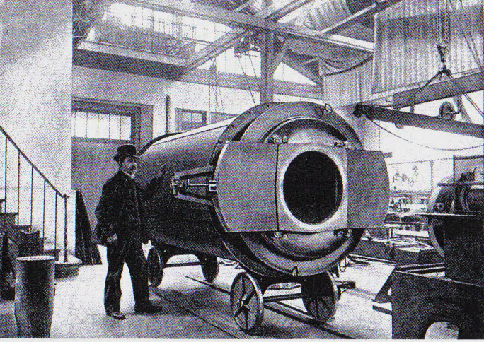 Great Paris Exhibition Telescope of 1900, eye-piece holder.